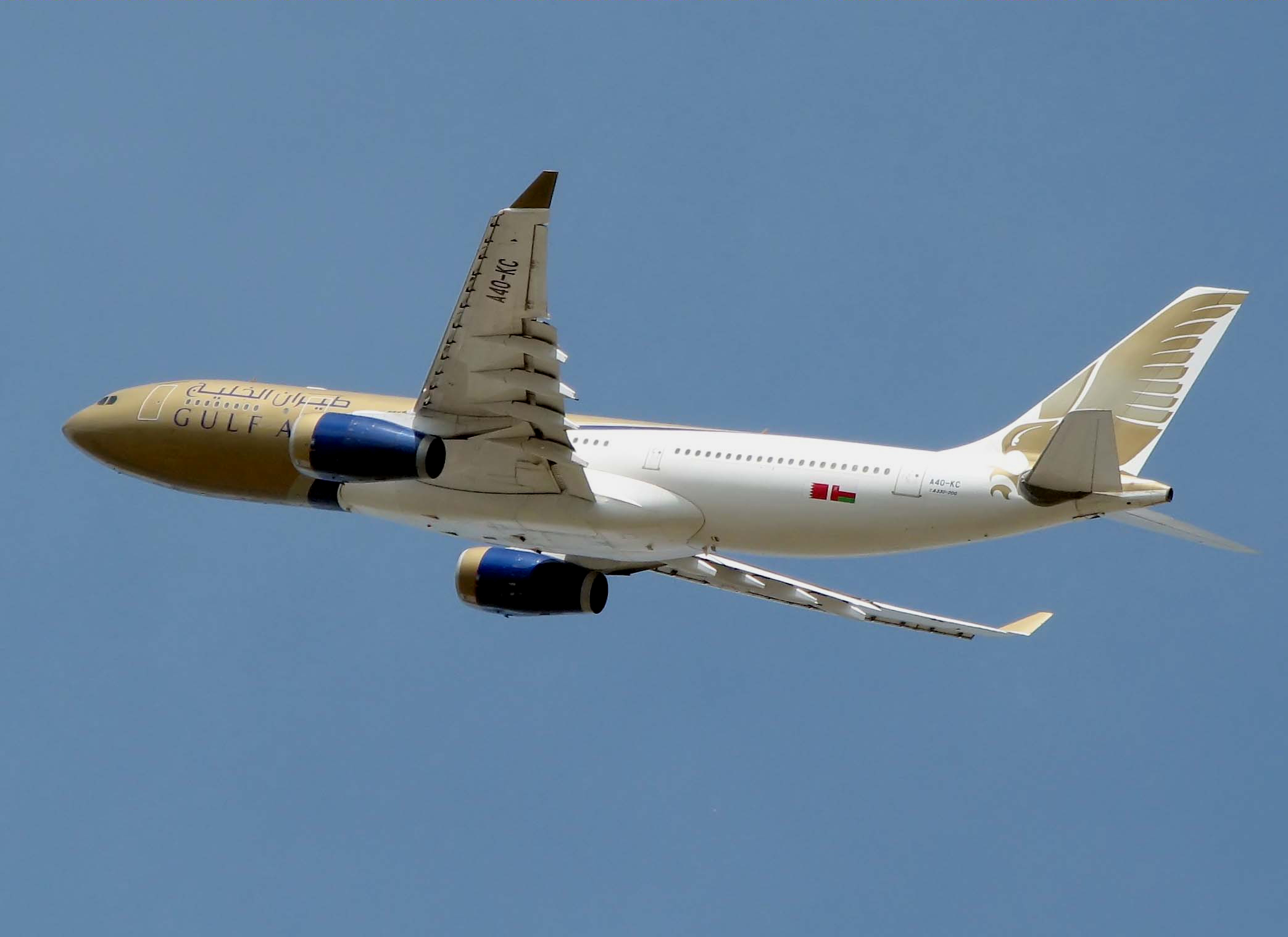 Gulf Air Airbus A330-200 (A40-KC) taking off from London Heathrow Airport, England. Photographed by Adrian Pingstone on July 29th 2006 and released to the public domain.